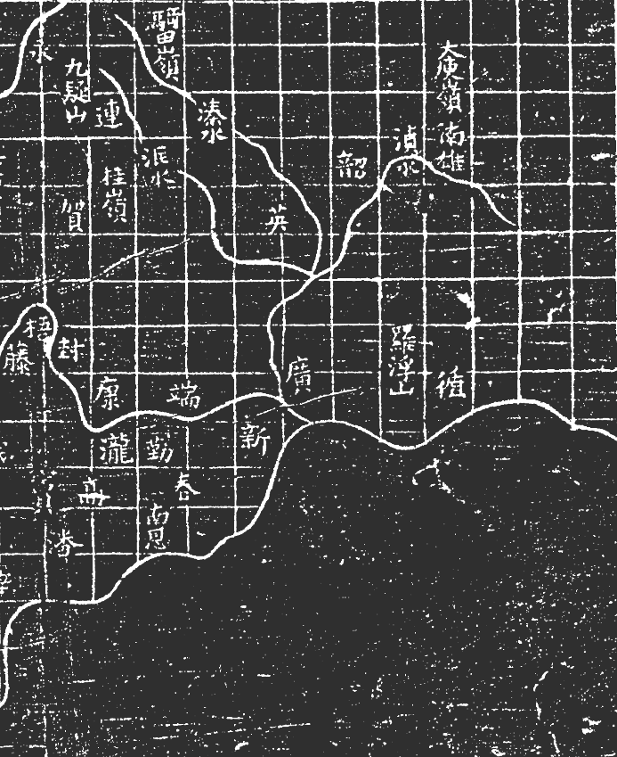 Detail of Guangzhou and the Pearl River delta from the Yuji Tu, with the coloring of the original rubbing restored